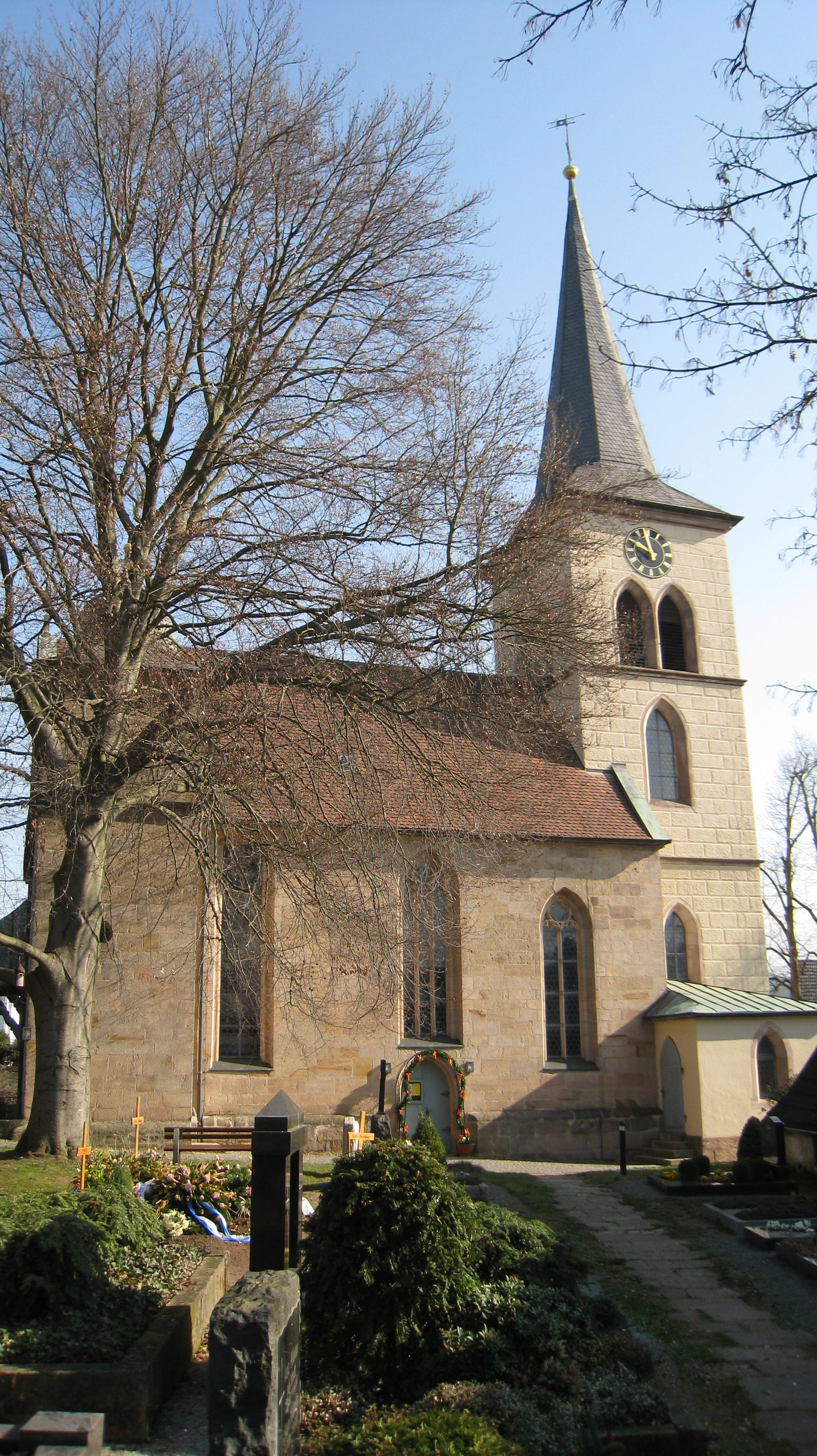 Church St. John at Schwarzach near Kulmbach, Bavaria, Germany